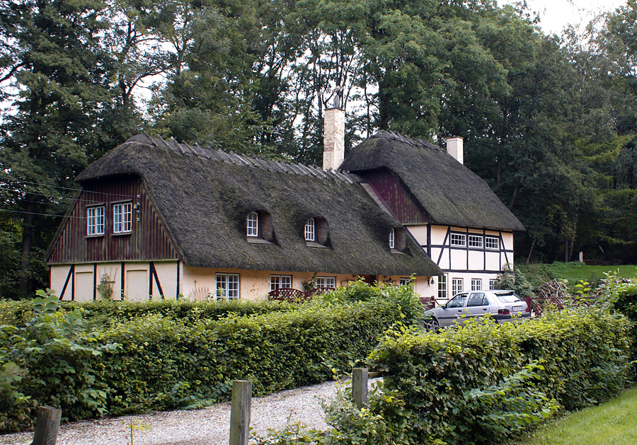 Vintre Møller - Former small industrial complex of watermills west of the village Kirke Sonnerup in Lejre Kommune, Denmark